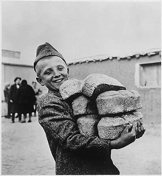 Polish youngster with his arms loaded down with bread made from flour supplied by the American Red Cross. Smile is in anticipation of enough bread to eat, something he would not get if he had stayed in his native Poland. Russia, ca. 1943